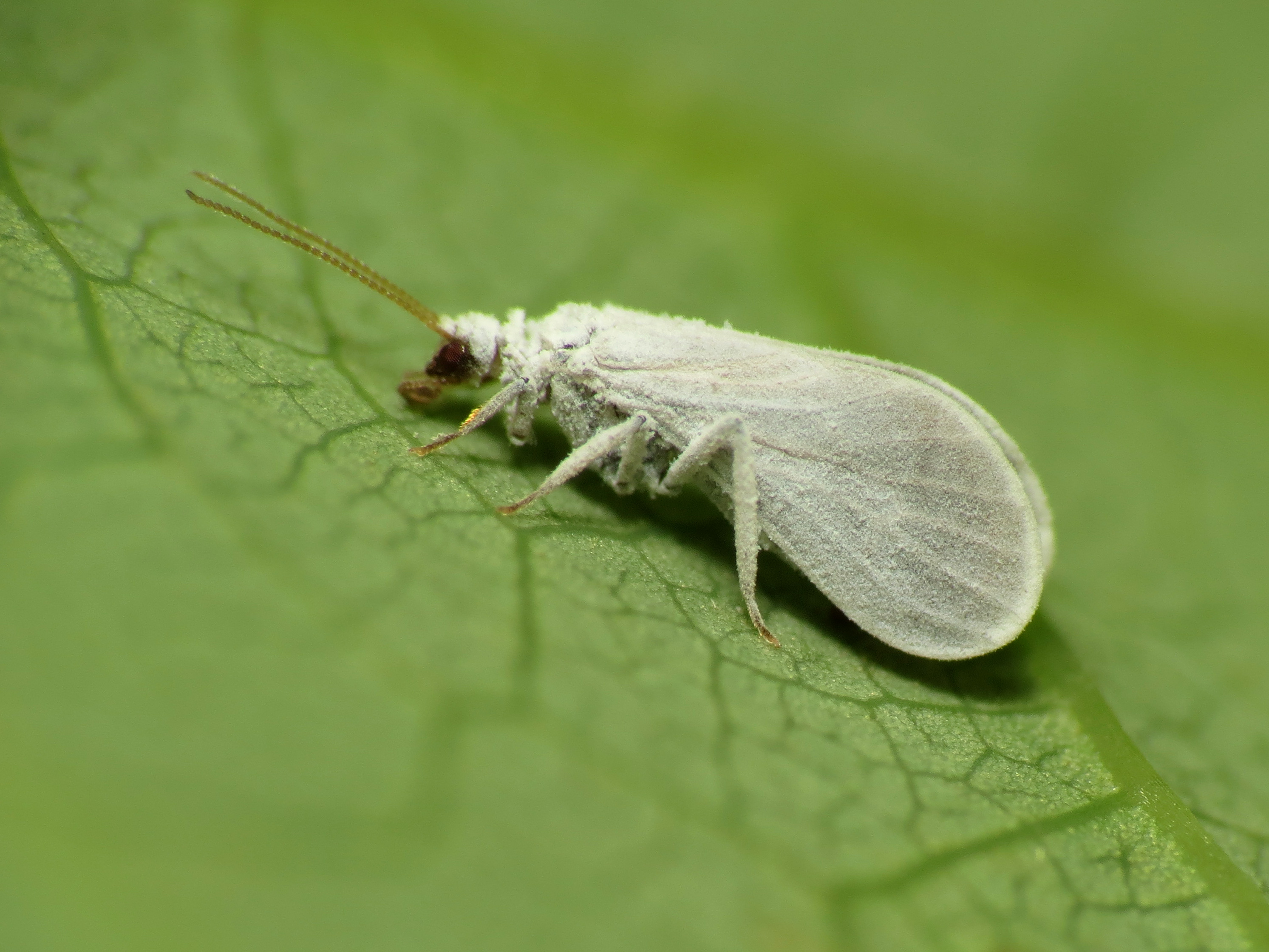 Coniopterygidae sp. Rock Creek Park, Washington, DC, USA.